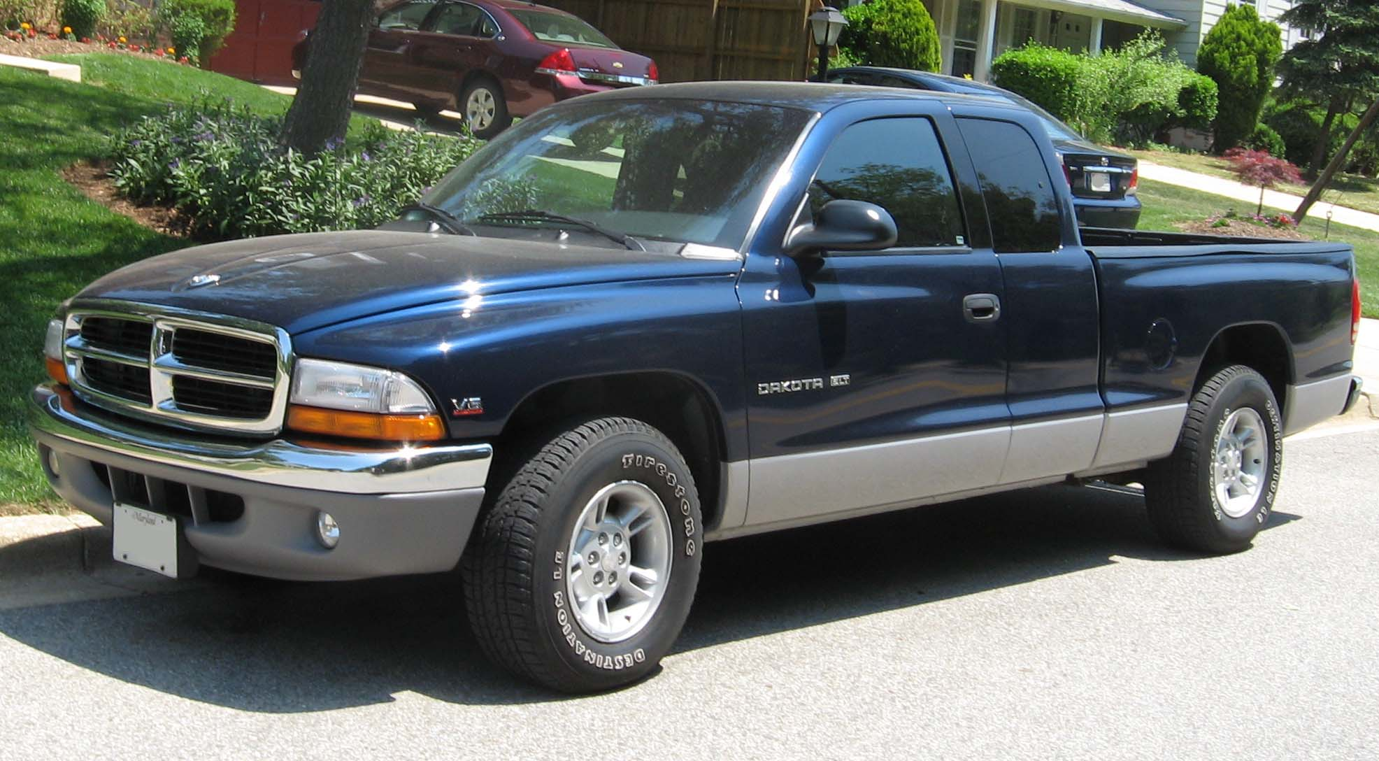 1997-2004 Dodge Dakota photographed in USA.